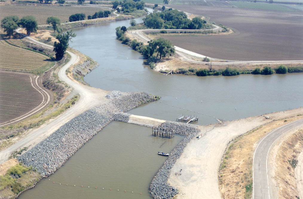 Image of head of Old River along lower San Joaquin River — Sacramento–San Joaquin River Delta region. provided by M.Burns (CADWR) for release into public domain.